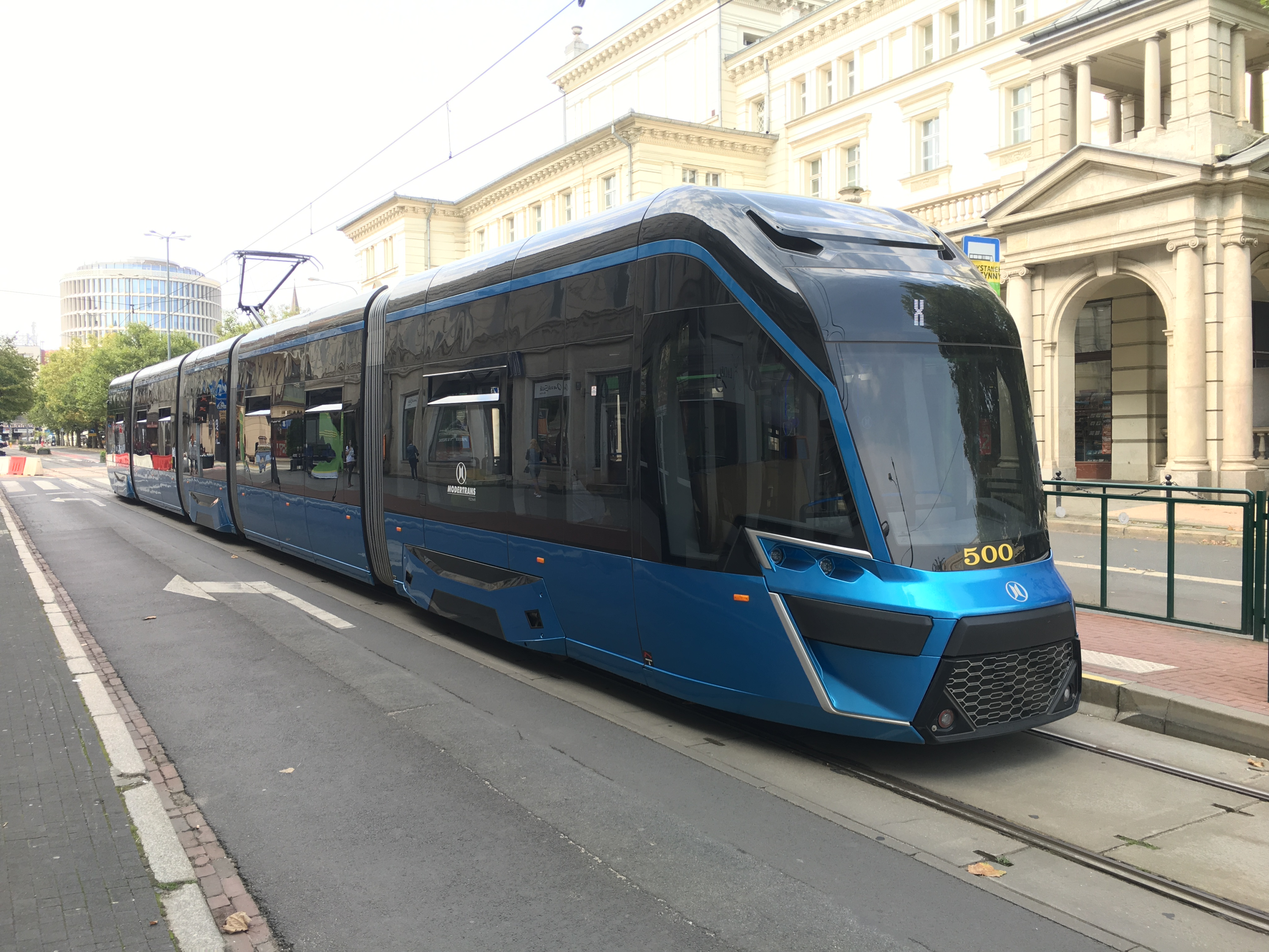 Moderus Gamma LF 01 AC presented for public audience in Poznań